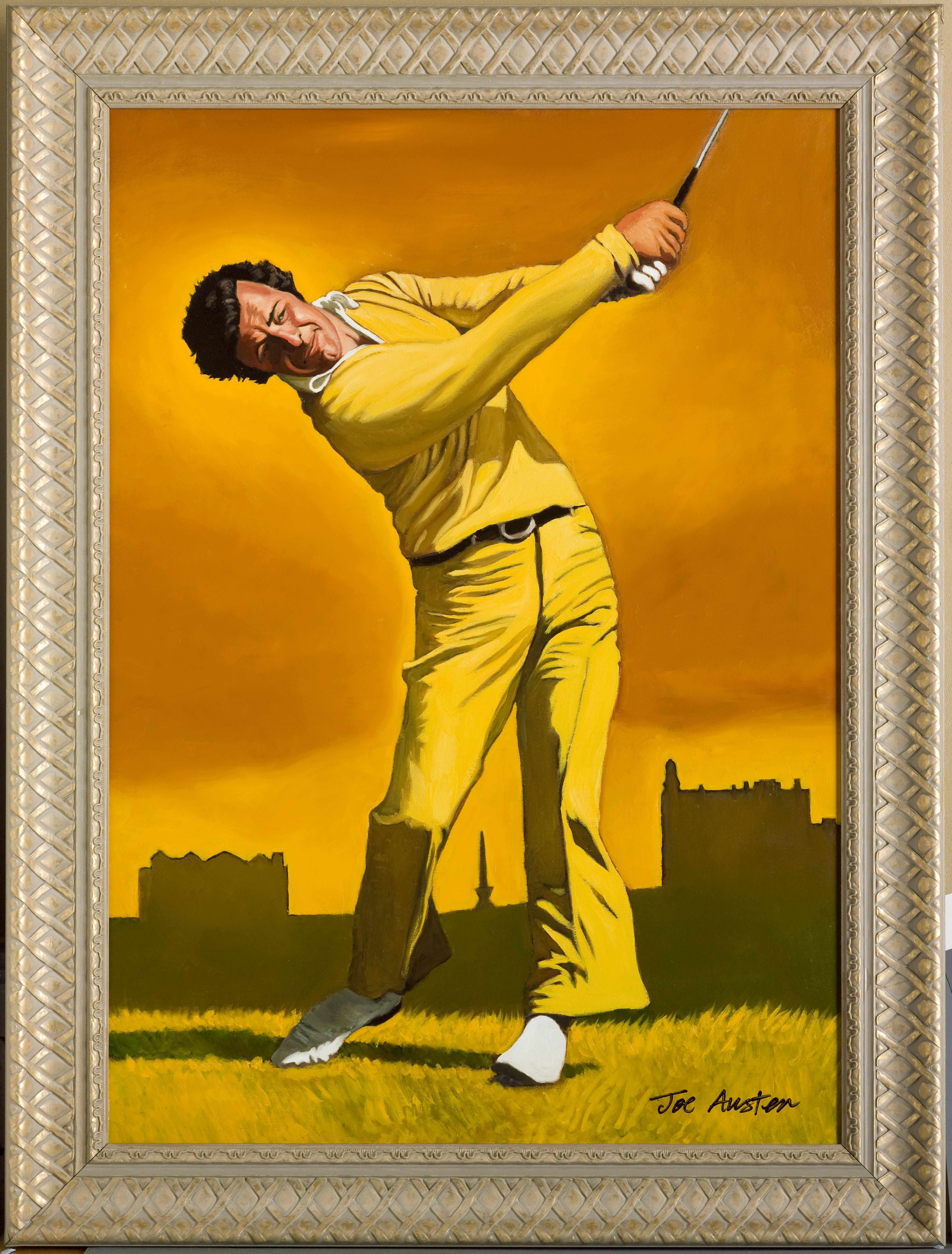 Tony Jacklin Portrait